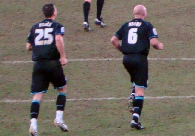 Cardiff V Leicester, FA Cup 4th Rd, Cardiff City Stadium, Cardiff, Wales